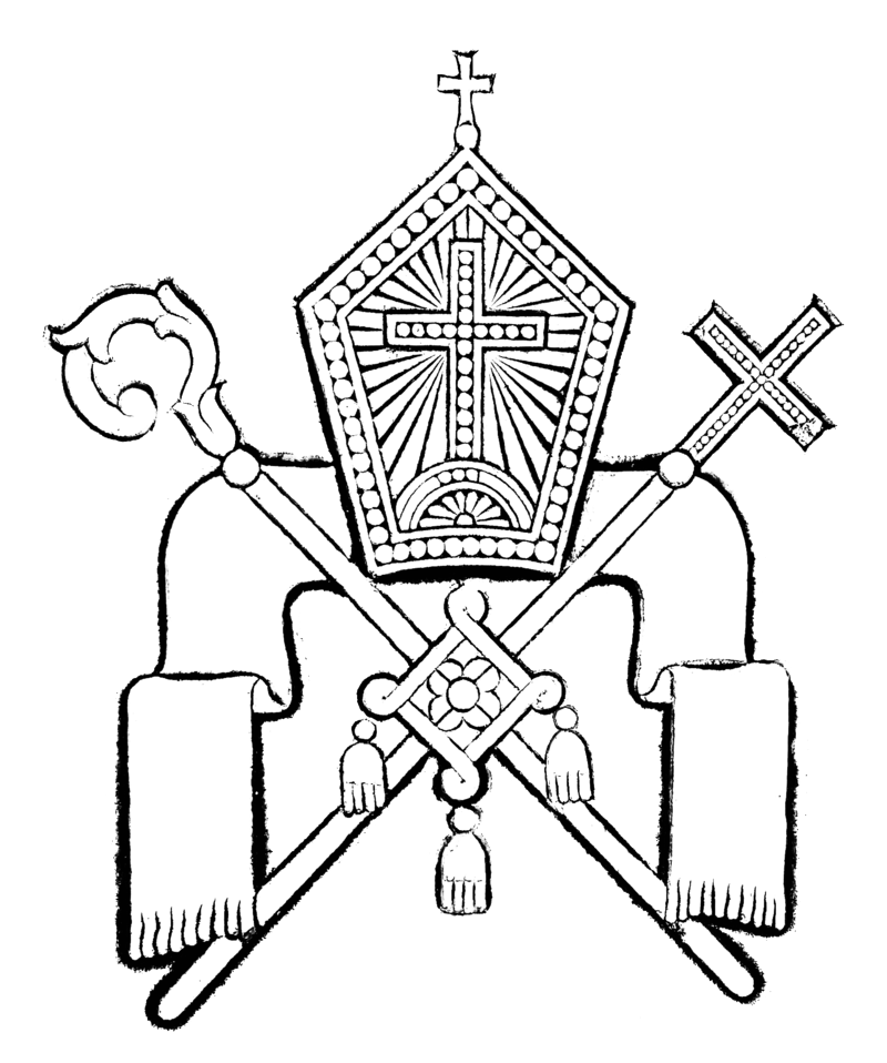 Logo of the Armenian Apostolic Church